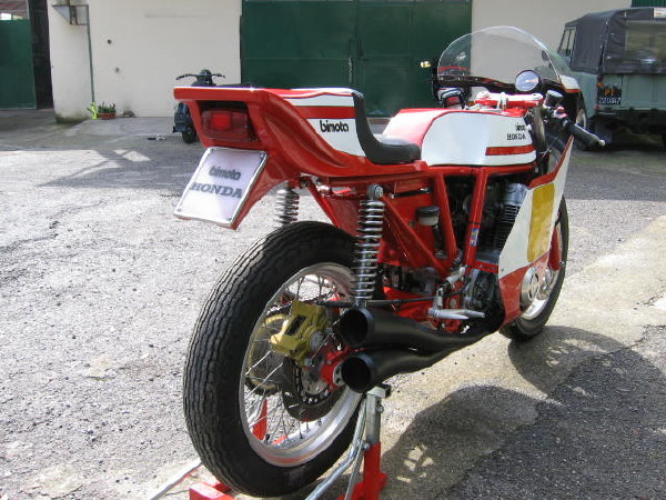 Bimota HB1